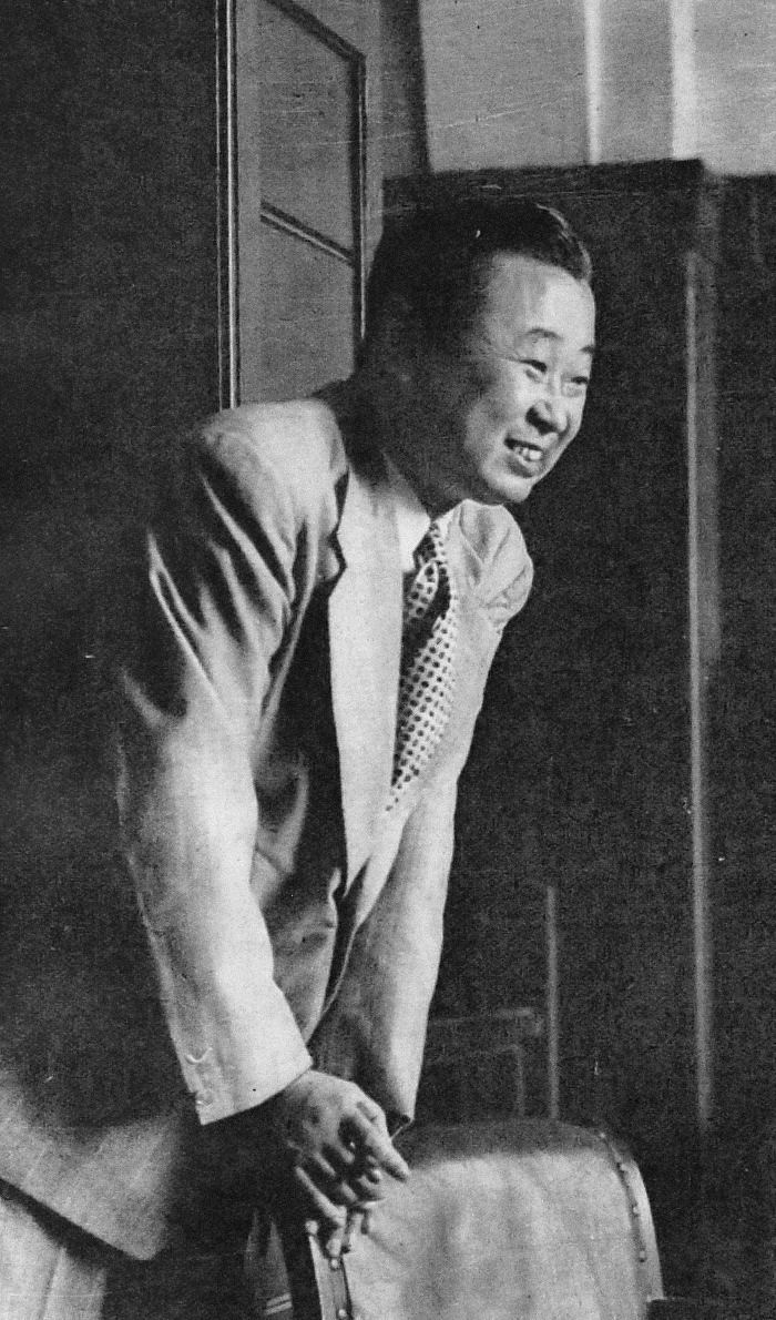 Yoshio Fujioka